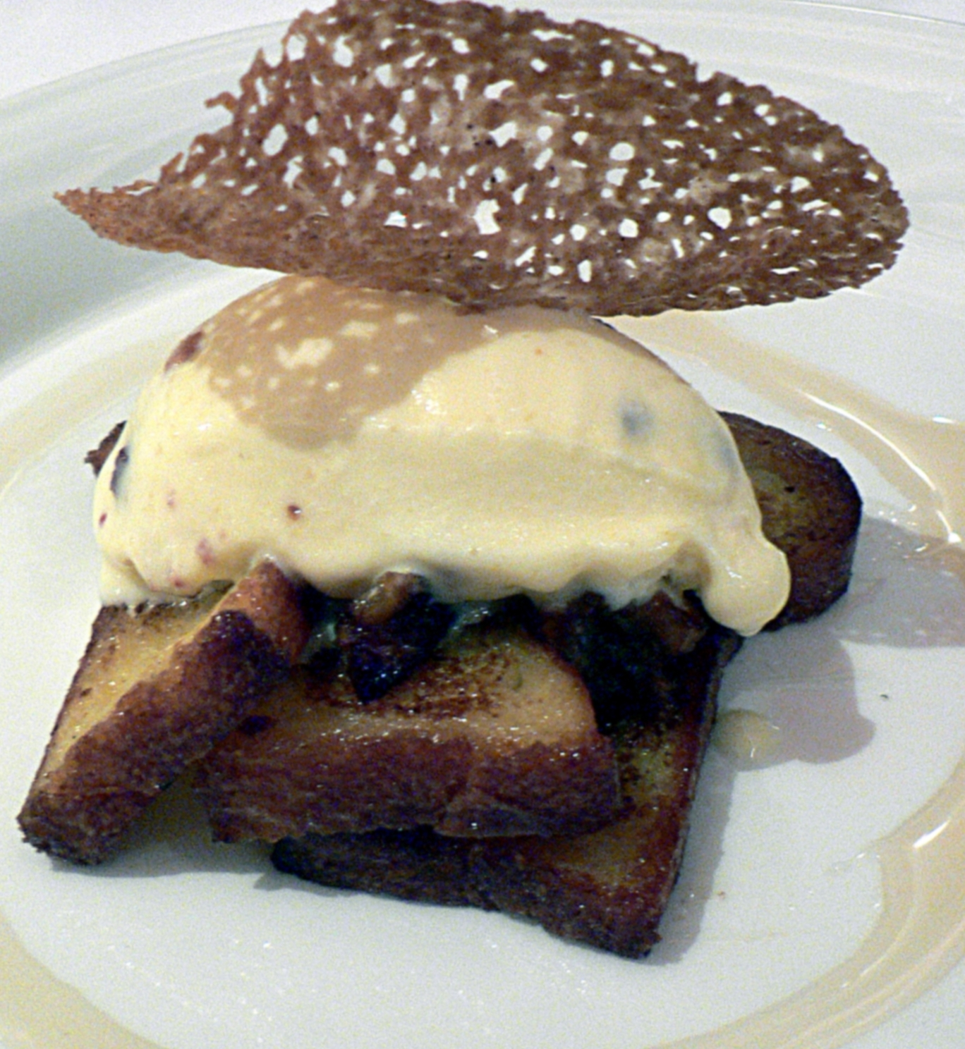 French toast with bacon ice cream, maple syrup and cinammon tuille.